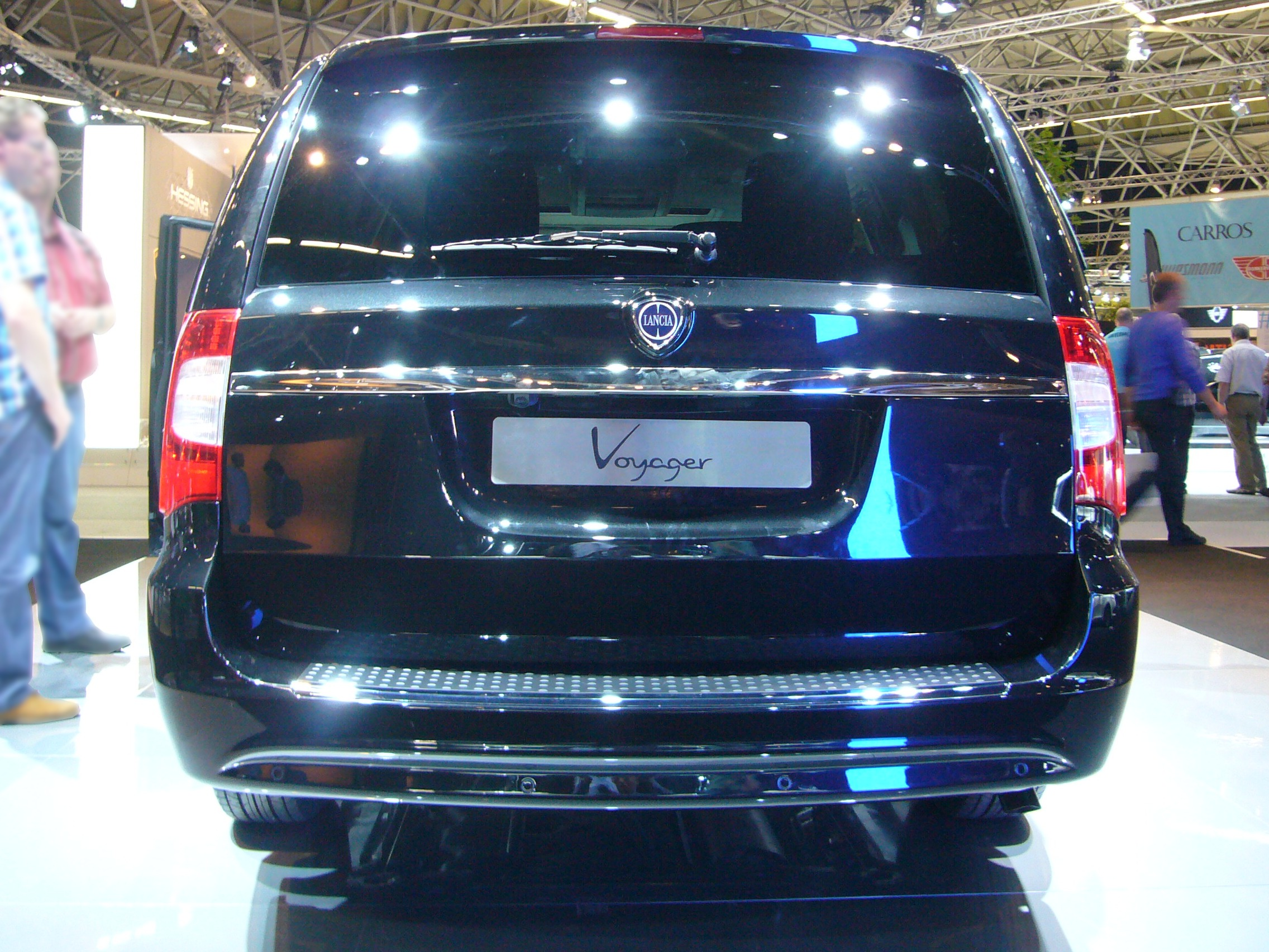 Lancia Voyager at AutoRAI Amsterdam 2011